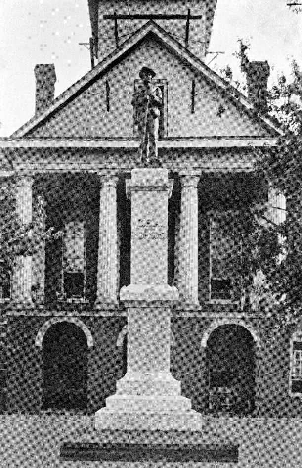 View of a monument of a Confederate soldier located in front of a courthouse. The monument is inscribed, "C.S.A. 1861-1865." Digital Collection: North Carolina Postcards Date: 1908 Location: Pittsboro (N.C.); Chatham County (N.C.); Collection in Repository Durwood Barbour Collection of North Carolina Postcards (P077); collection guide available online at Usage Statement